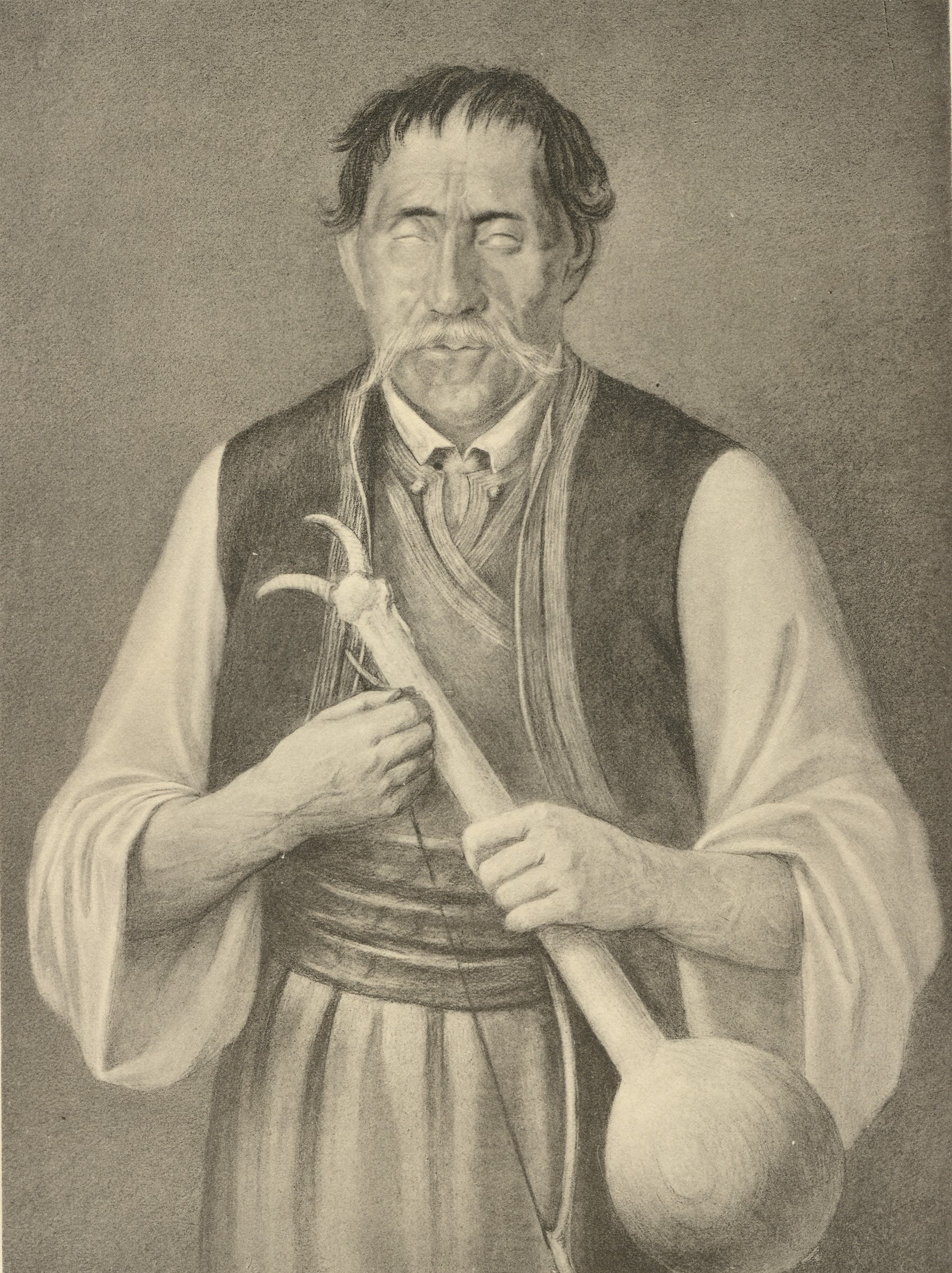 Portrait of Đuro Milutinović (1774-1844), Serbian guslar Srpski (latinica): Portret guslara Đure Milutinovića (1774-1844)